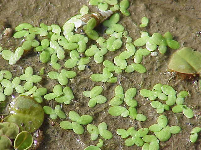 Species: Lemna minor Family: Lemnaceae Image No. 2